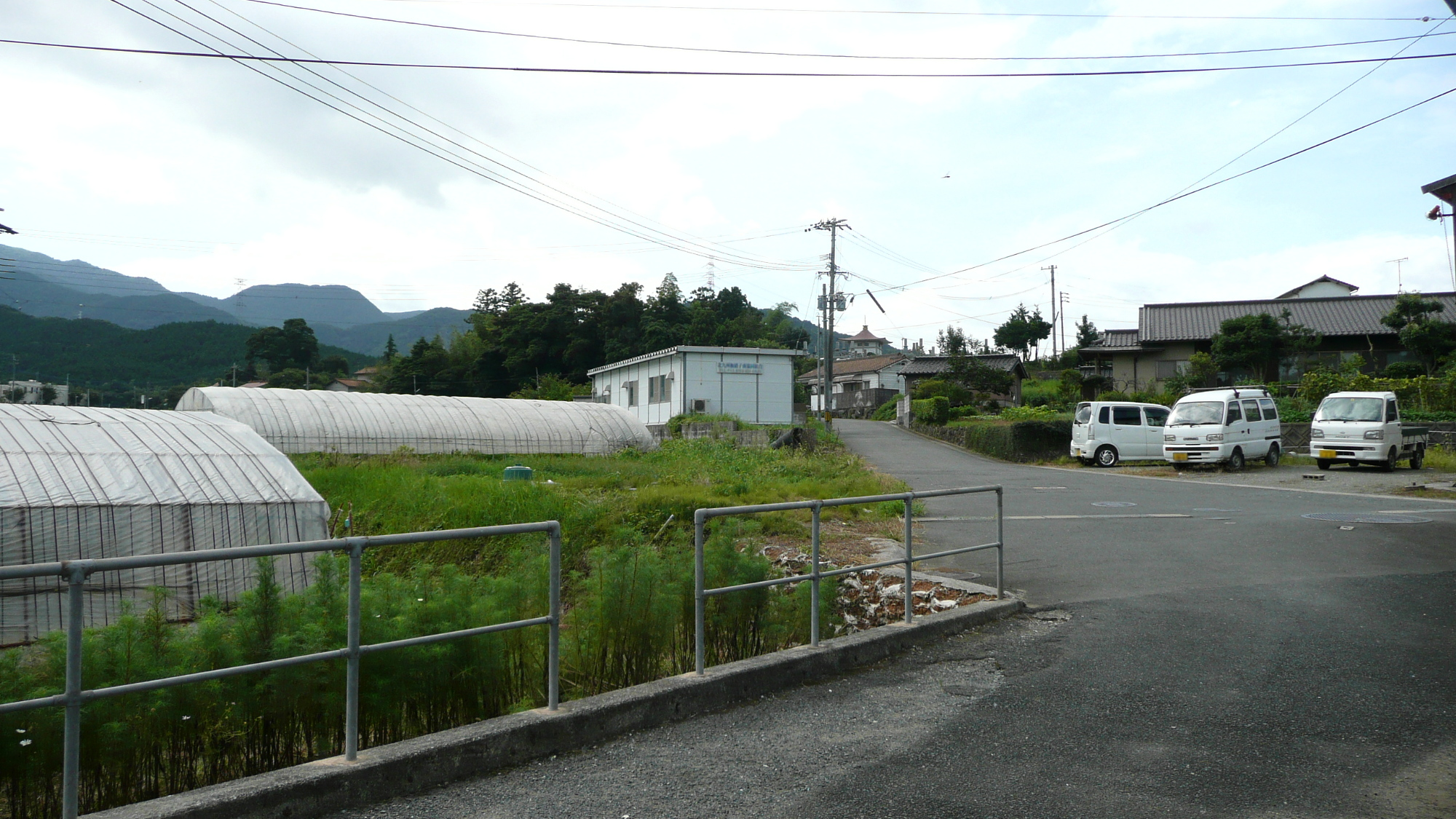 Shii Station plaza, Hita-Hikosan line.